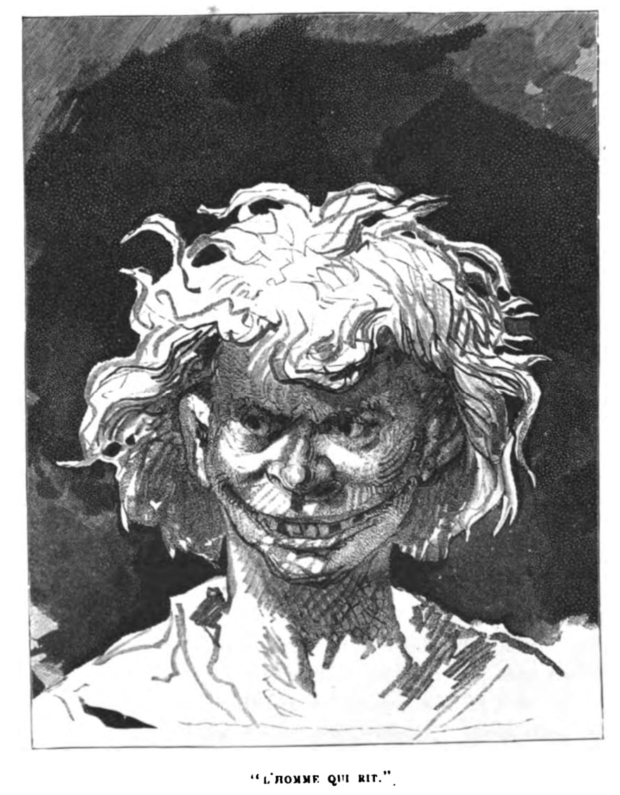 This illustration from a book published in 1882 shows how one artist imagined Gwynpaine's appearance. Gwynpaine is the central character in Victor Hugo's book "The Man Who Laughs". In the story, his face was mutilated by the comprachicos.